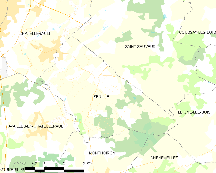 Map of French municipality Senillé